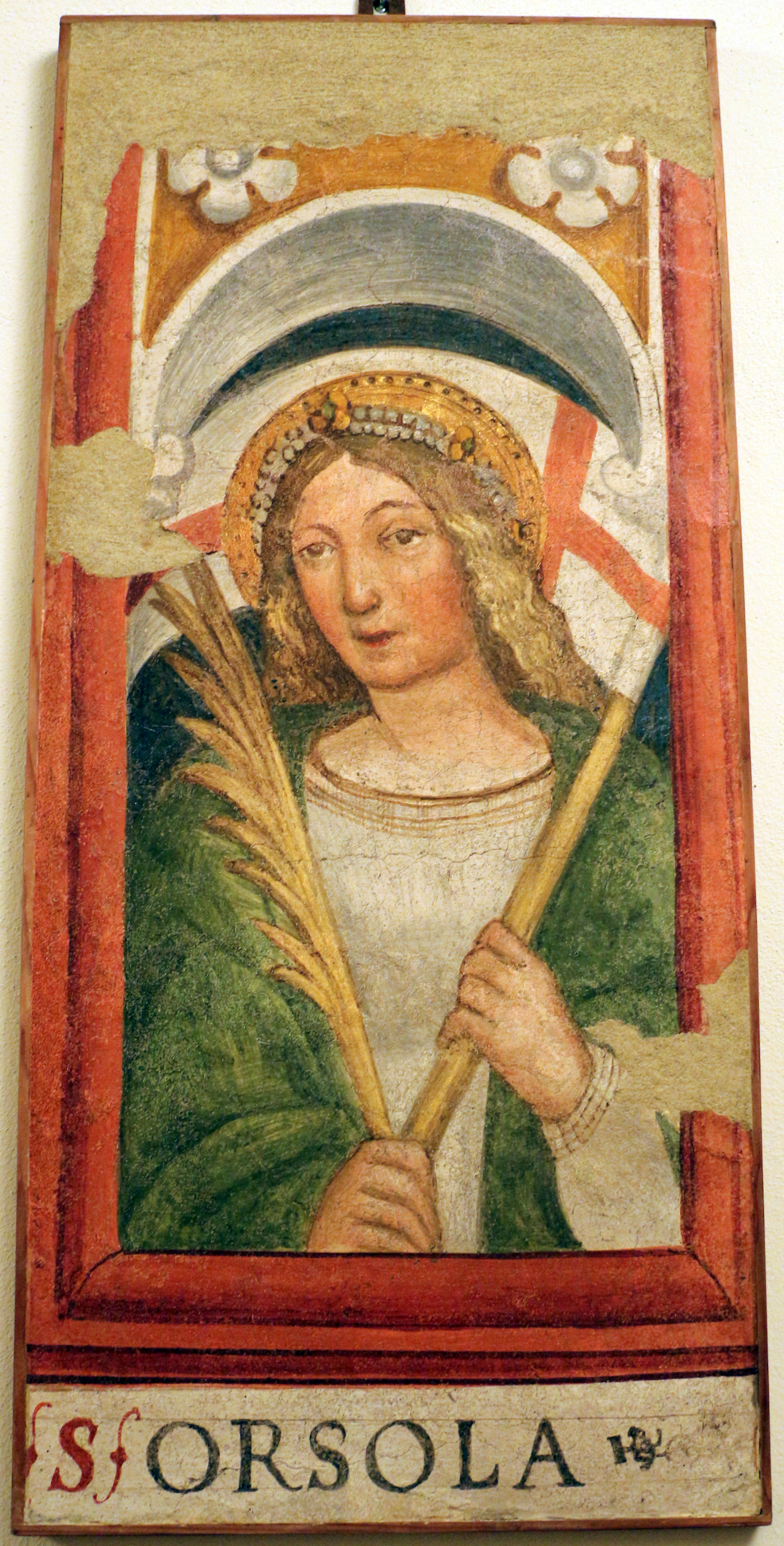 San Nicolò (Zanica) - Museum